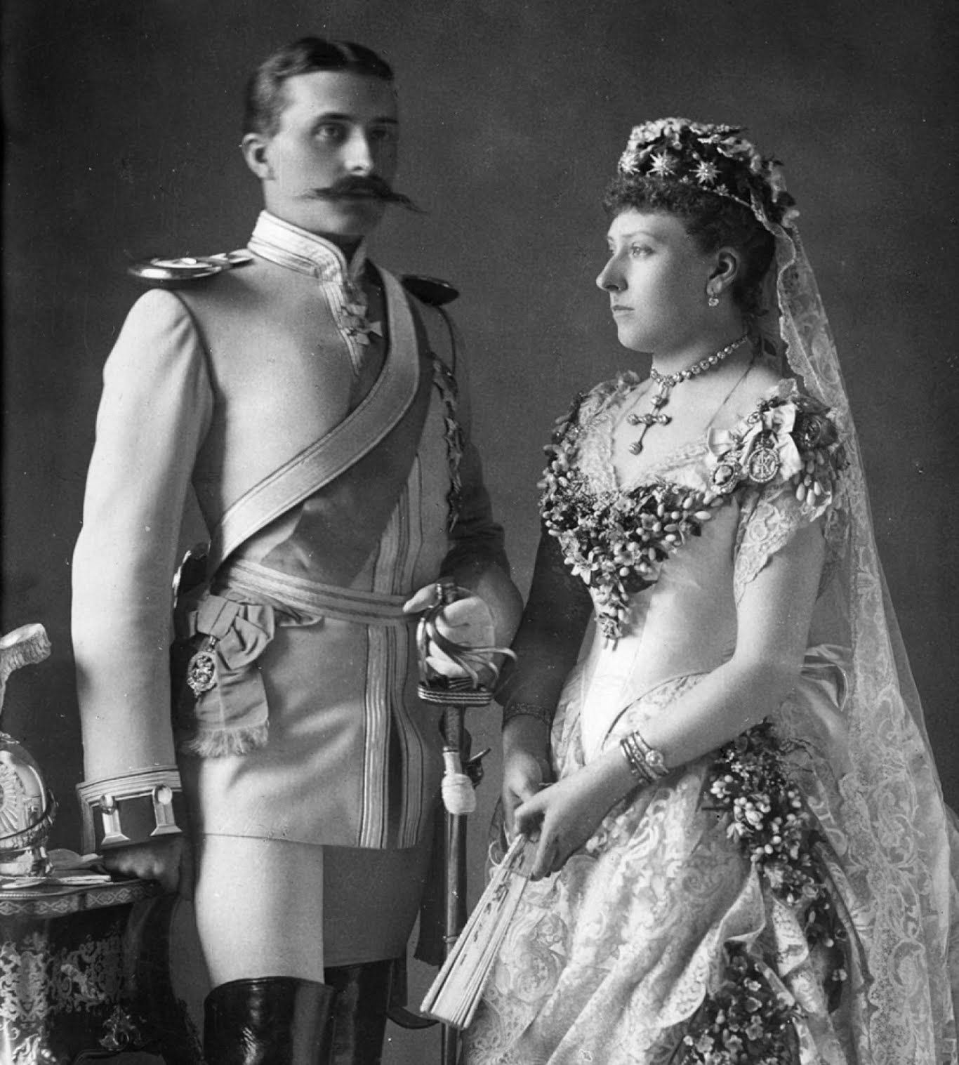 Prince Henry of Battenberg and Princess Beatrice of the United Kingdom in their wedding